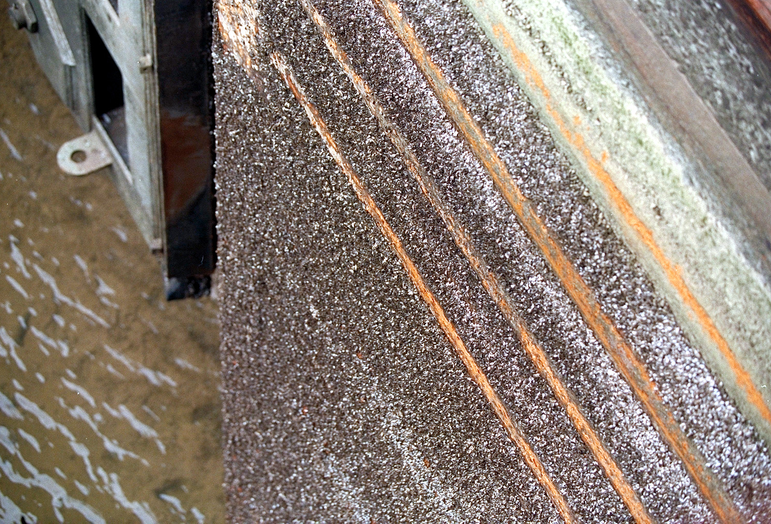 Zebra mussel infestation on the walls of Arthur V. Ormond Lock on the Arkansas River near Morrilton, Arkansas, USA. The zebra mussels are an invasive species in North America and have caused significant damage to American waterways, locks, and power plants. Coordinates: 35°7′28.76″N 92°47′7.24″W / 35.1246556°N 92.7853444°W